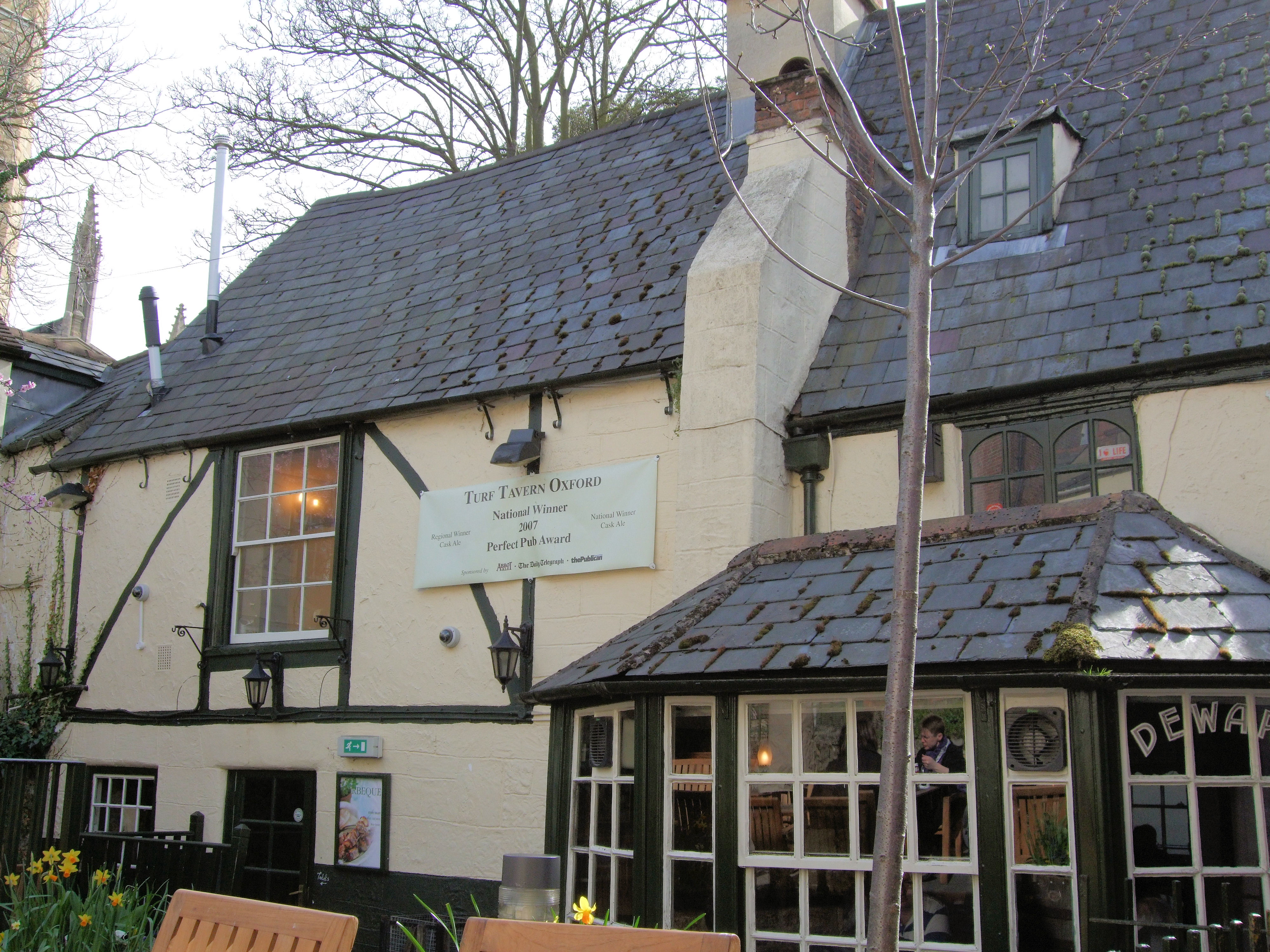 The following is the author's description of the photograph quoted directly from the photograph's Flickr page."The Turf Tavern is a historic pub located just outside the Oxford city walls. With foundations dating back to the 14th century, its city centre location makes it a favourite for both town and gown."